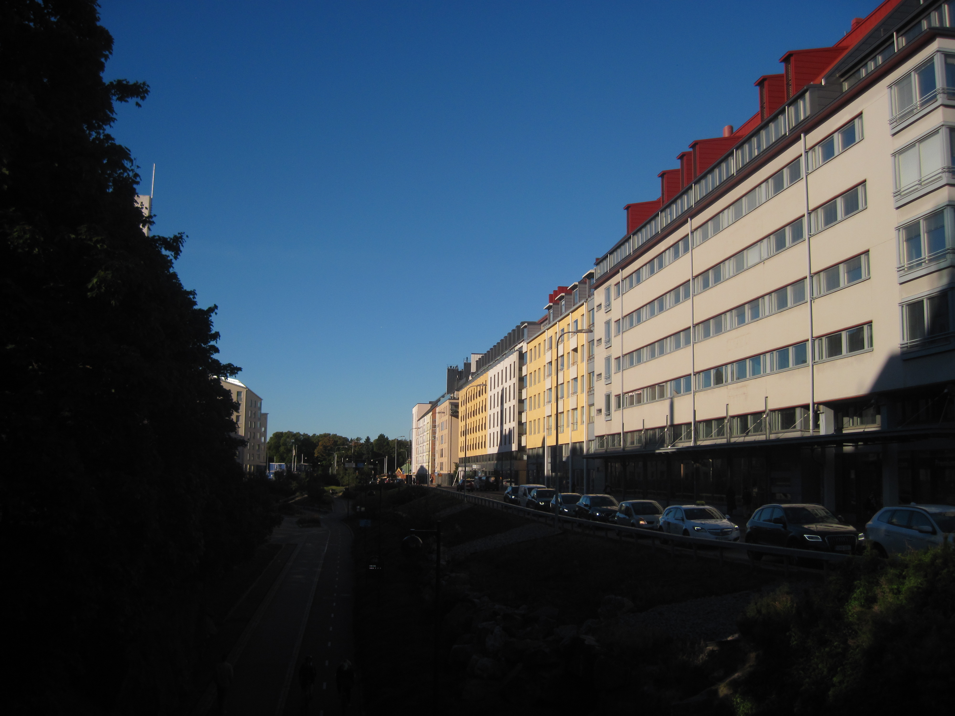 Western part of Pohjoinen Rautatiekatu in Helsinki